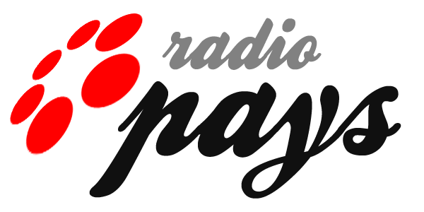 Logo of Radio Pays